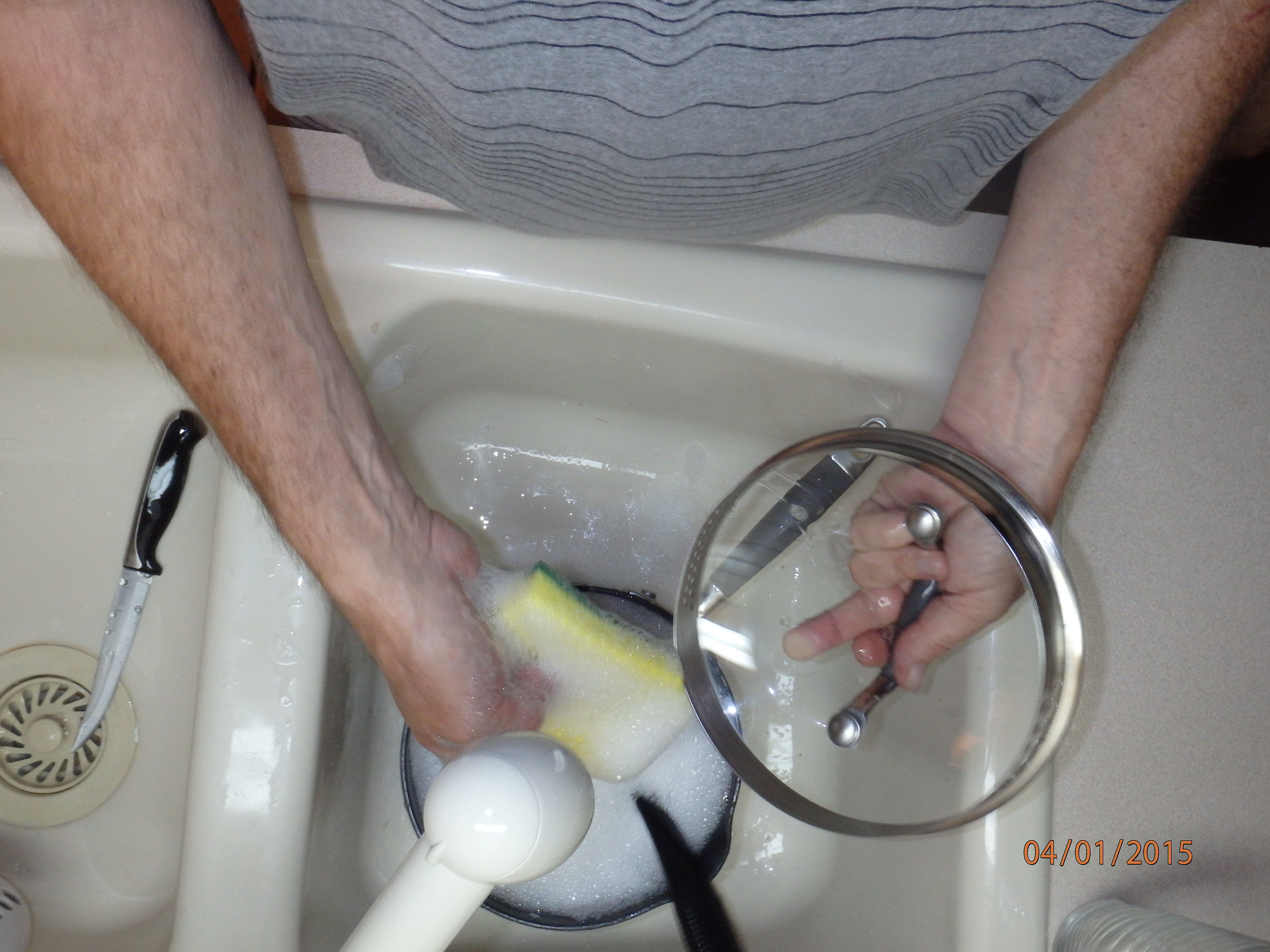 washing a pan